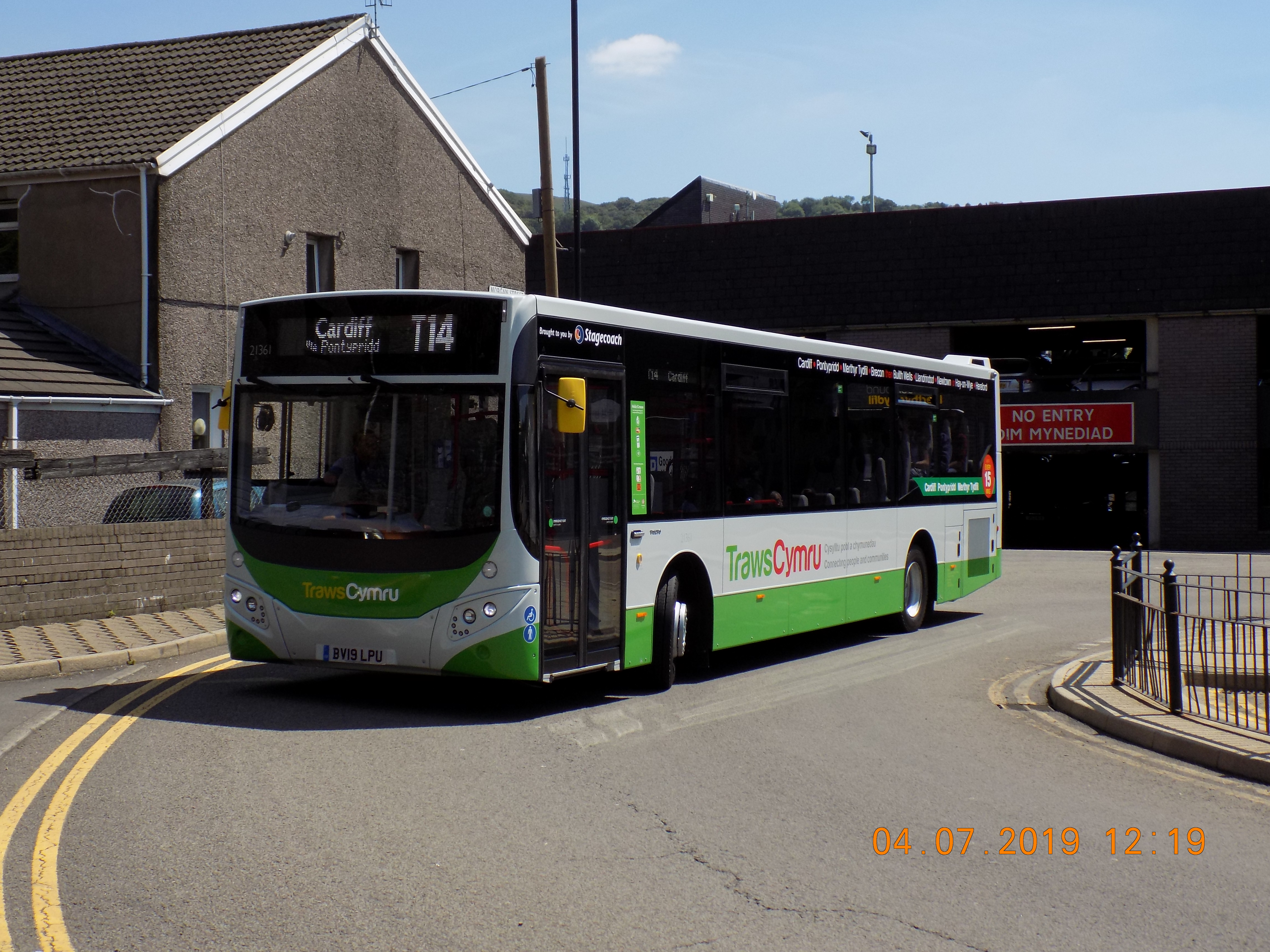 MCV Evora BV19 LPU in Pontypridd headed to Cardiff